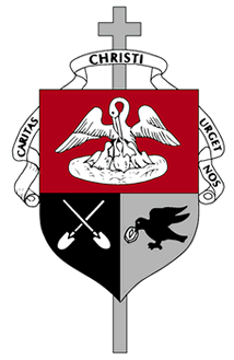 Emblem of Alexian Brothers Congregation